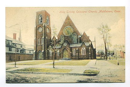 Postcard: Holy Trinity Church (Church of the Holy Trinity) an Episcopal Church in Middletown, Connecticut Description: "Old Divided Back Postcard - Postmarked 1910"